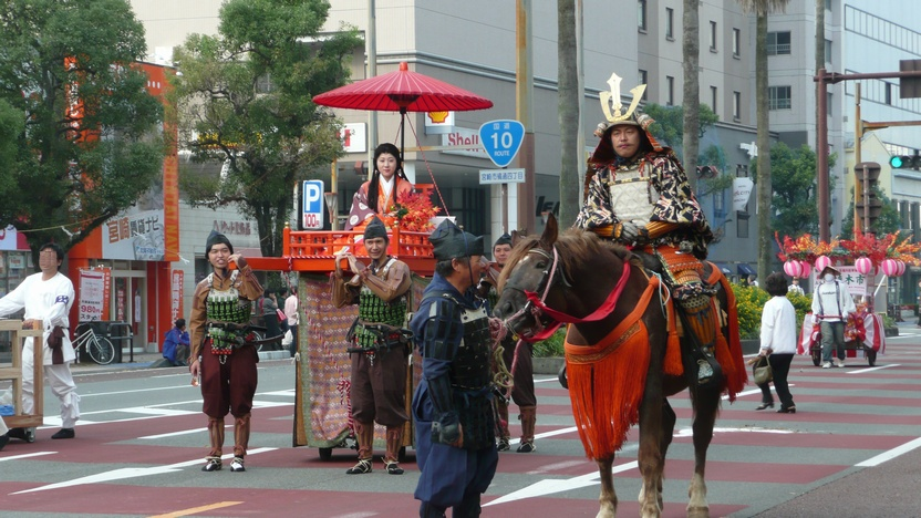 Miyazaki Shrine Grand Festival in 2008 - Shiiba.